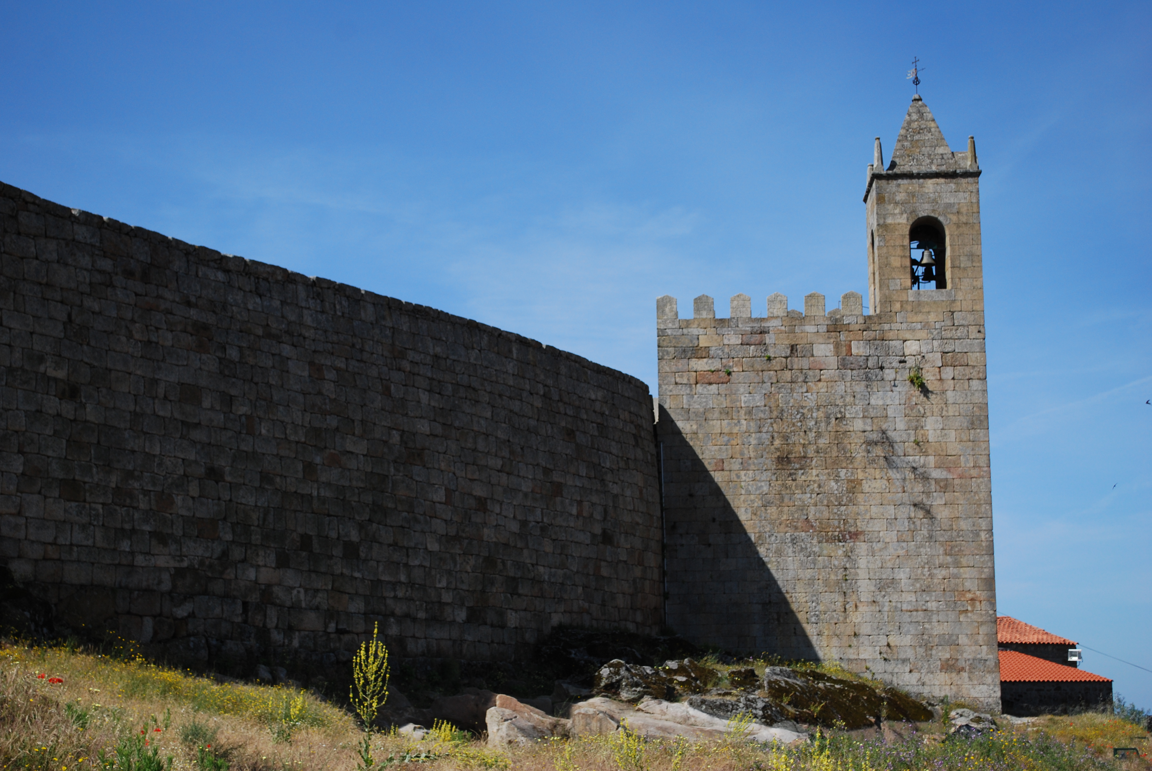 This file was uploaded for Wiki Loves Monuments in Portugal with the unique identifier 73056.